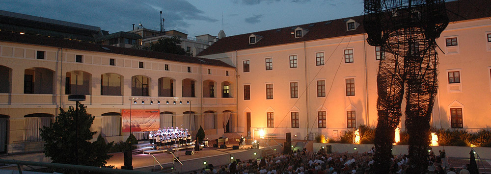 Municipality of Pavlos Melas